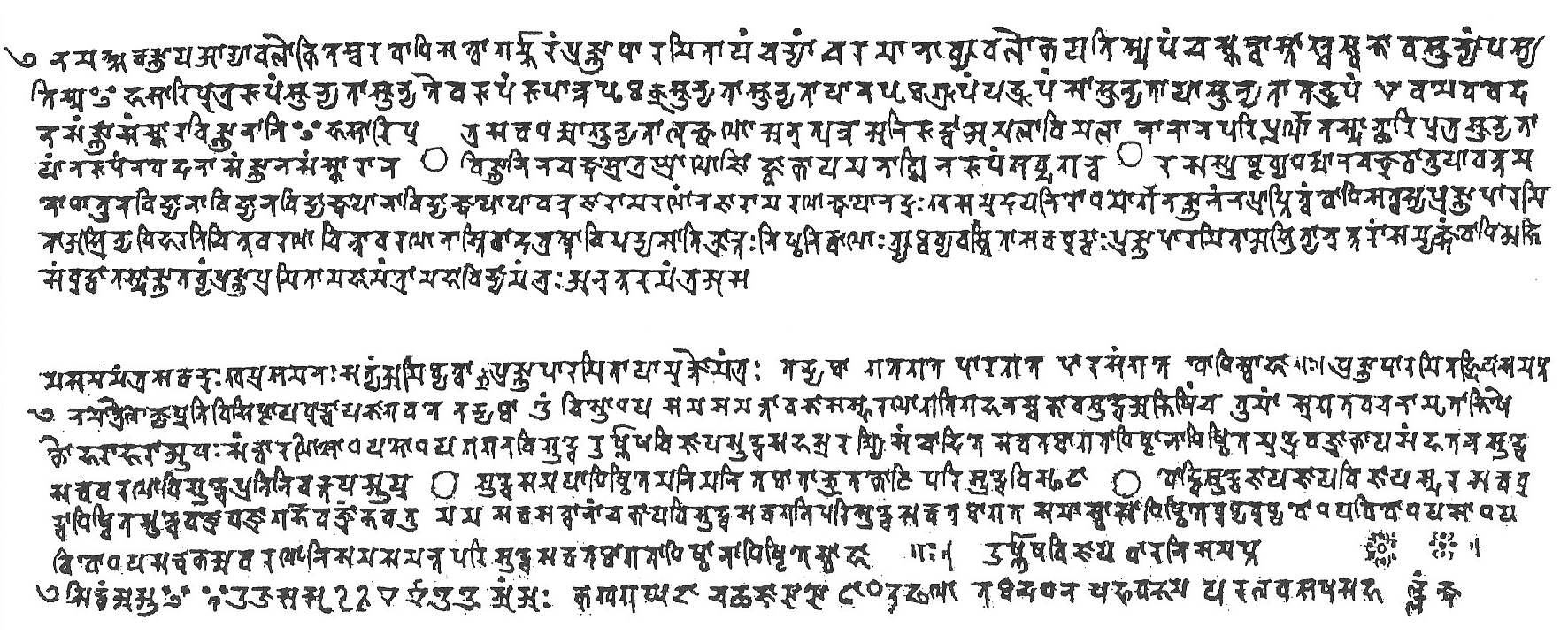 Facsimile of the so-called "Horiuzi Palm-leaf MSS." of Hōryū-ji monastery. The manuscript was preserved in Hōryū-ji since 609 AD. The manuscript itself dates from the first half of the 6th century[1]. Original caption: "Facsimile of the two palm-leaves of Horiuzi, sent to Prof. Max Müller in 1880. Catal. of Japanese books and mss. in the Bodleian Library, No. 45." The manuscript begins with the Heart Sūtra. From page 2, line 2 we find the Uṣnīṣavijaya Dhāraṇī. The last line is a complete Sanskrit syllabary in Siddhaṃ script - preceded by the word siddhaṃ and ending with llaṃ kṣa. Each texts begins with the auspiscious mark called yigmo in Tibetan, which is sometimes erroneously interpreted as oṃ. The text of the Heart Sūtra on this ms. is extremely corrupt. It contains numerous errors and omissions (visargas and anusvāras, syllables, words, and one whole phrase) and one repetition of part of a phrase. The writing is poor and difficult to read in places. `This ms. is cited as a source by Dr Edward Conze in his critical edition of the Heart Sutra as Ja. Note that instead of namo bhagavatyai prajñāpāramitāyai, this text opens with the salutation: namas sarvajñāya. 日本法隆寺所藏《梵本心経并尊勝陀羅尼》,以悉曇體梵文書寫於貝葉之上。